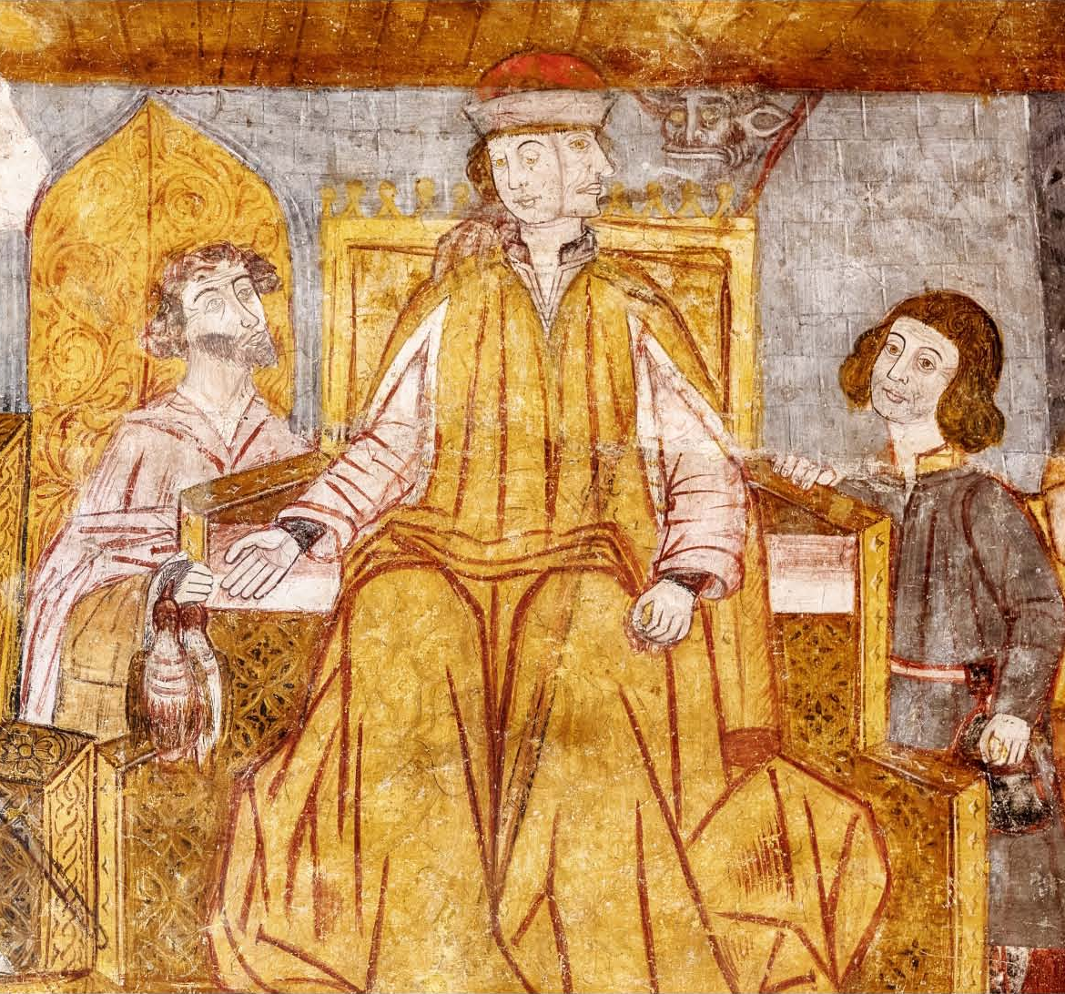 Detail of the Allegory of the Good and Bad Judge, 15th-century fresco in the old Town Hall and Courthouse building in Reguengos de Monsaraz, Portugal.